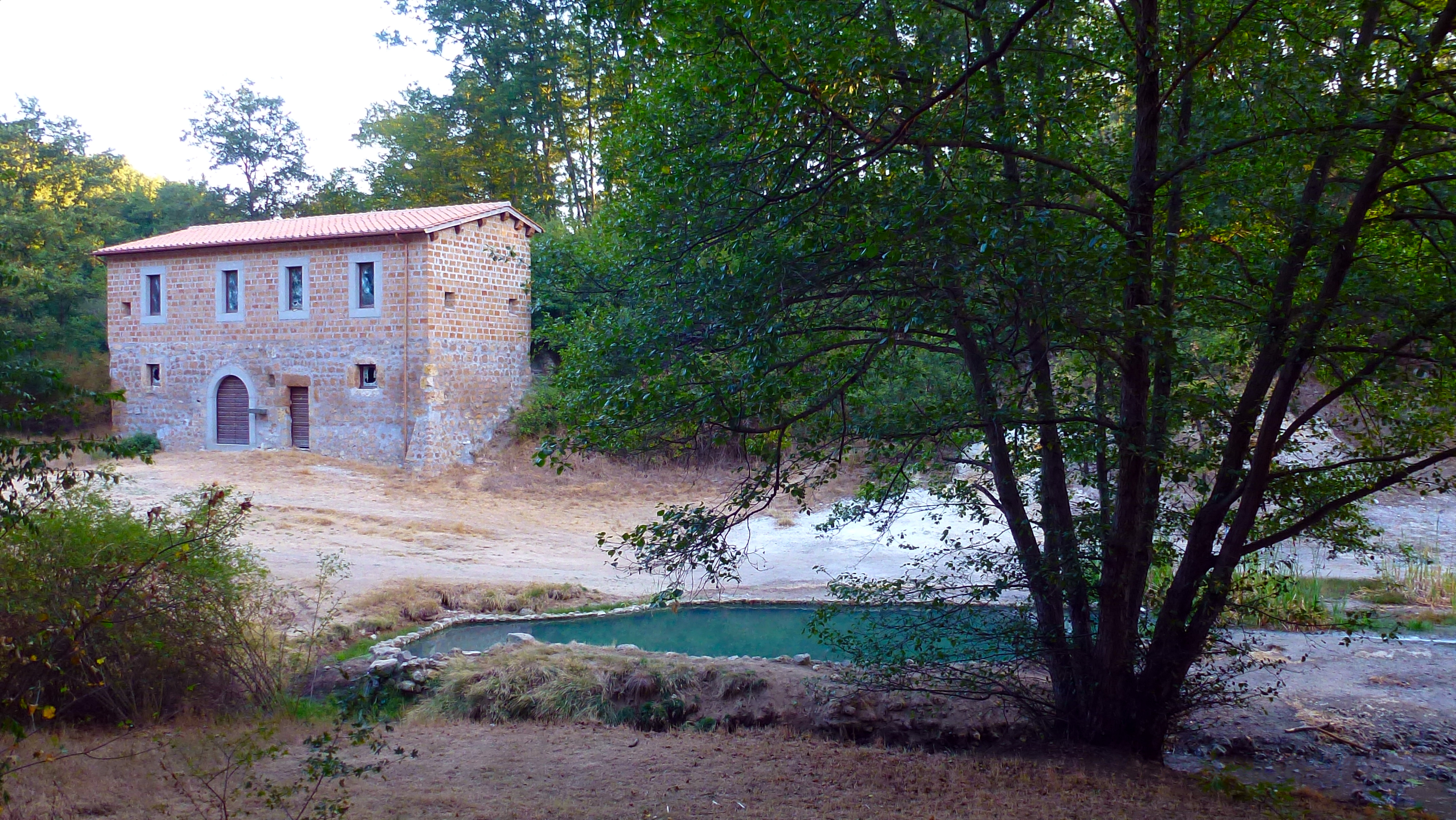 La Mola del Biscione nel 2017